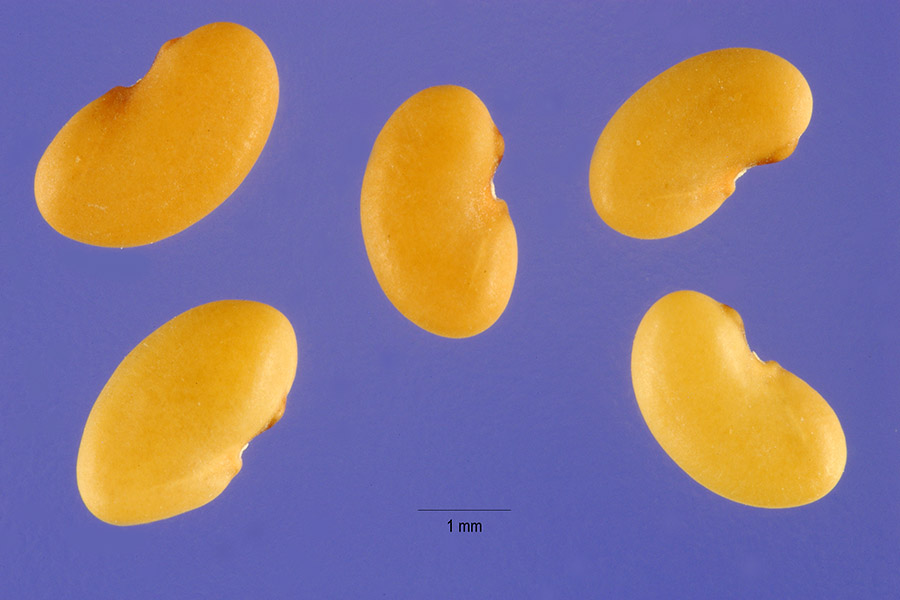 Photograph of Medicago polymorpha seeds.